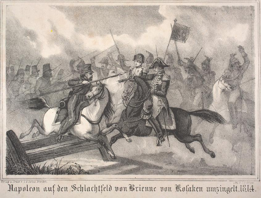 The Battle of Brienne, 29 January 1814. Napoleon was nearly taken by the Cossacks after the Battle at Brienne. French general Gourgaud saved the life of the Emperor by killing a cossack who tried to transpierce him his lance. Lithograph of XIX c.